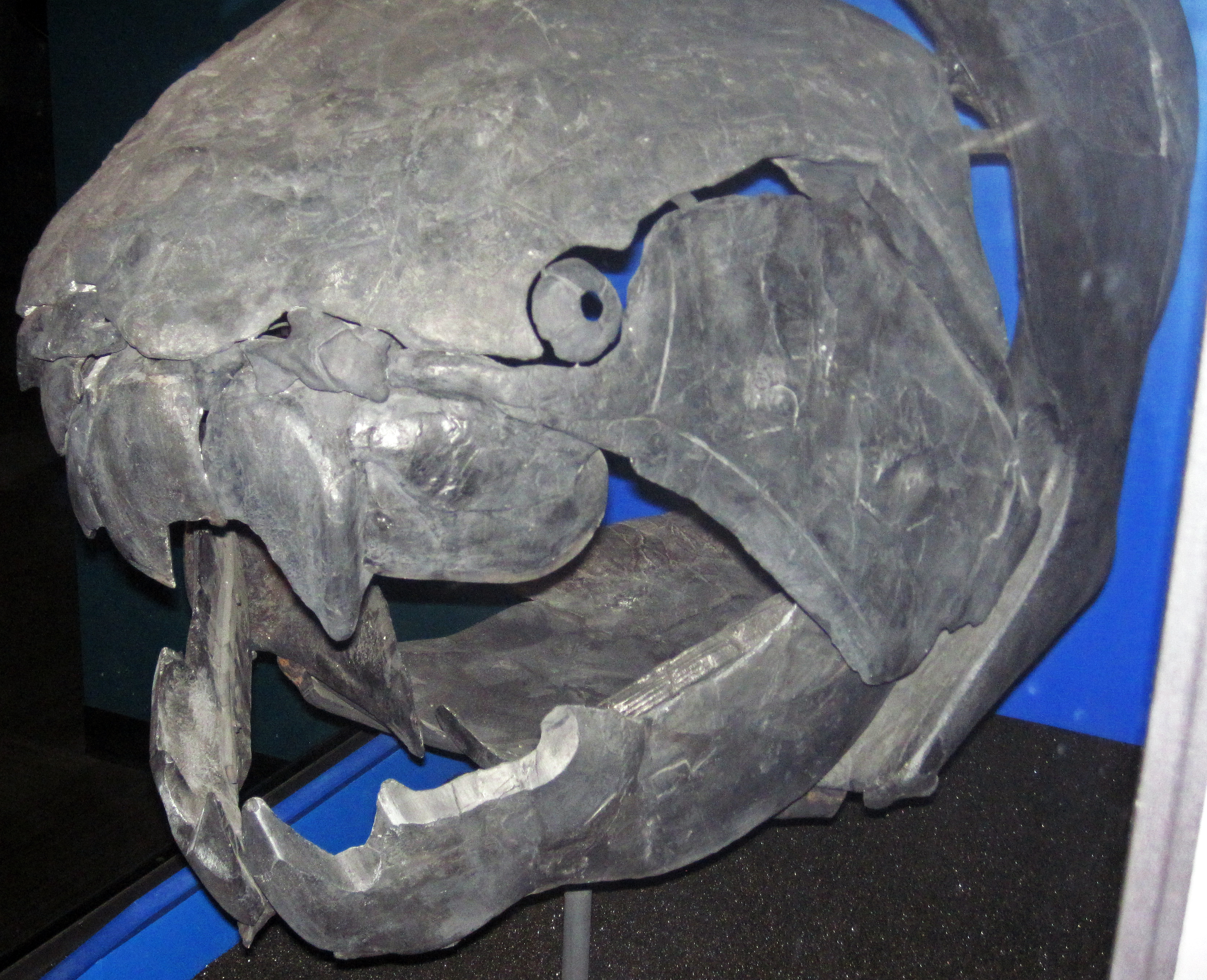 Dunkleosteus terrelli (Newberry, 1873) - fossil fish skull (cast) from the Devonian of Ohio, USA. (public display, Field Museum of Natural History, Chicago, Illinois, USA) The placoderms are a group of extinct, mostly predatory fish that existed during the Middle Paleozoic (Silurian and Devonian). The most famous placoderm was Dunkleosteus, which was named after David Dunkle, an Ohio paleontologist. It was not a shark - it had a bony skull, a neck joint, and remarkably, the jaws lacked true teeth. Instead, the jawbones were sharp-edged and pointed. Classification: Animalia, Chordata, Vertebrata, Placodermi, Arthrodira, Dunkleosteidae Stratigraphy: Cleveland Shale Member, upper Ohio Shale, Famennian Stage, upper Upper Devonian Locality: Rocky River Valley, Cleveland urban area, western Cuyahoga County, northeastern Ohio, USA See info. at